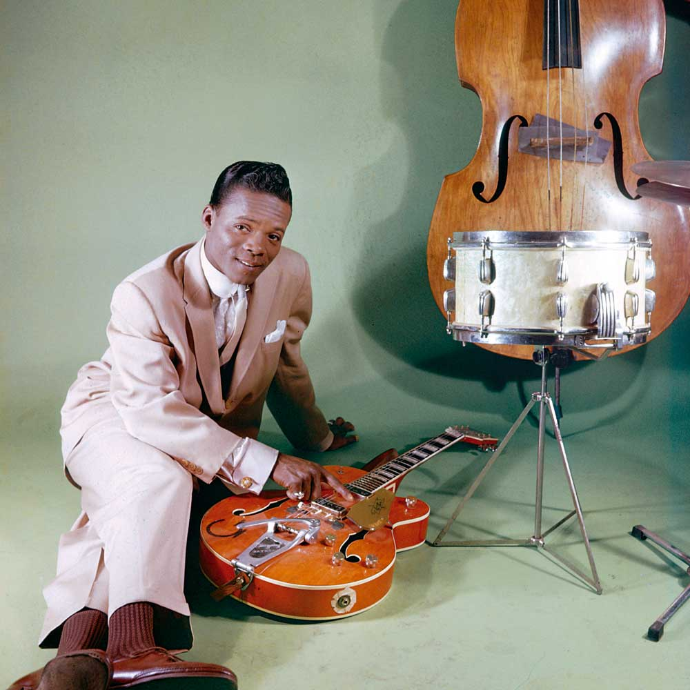 Hank Ballard in an undated publicity photo that later became the cover of his 1960 album "The One and Only Hank Ballard and His Midnighters" (King Records 674)